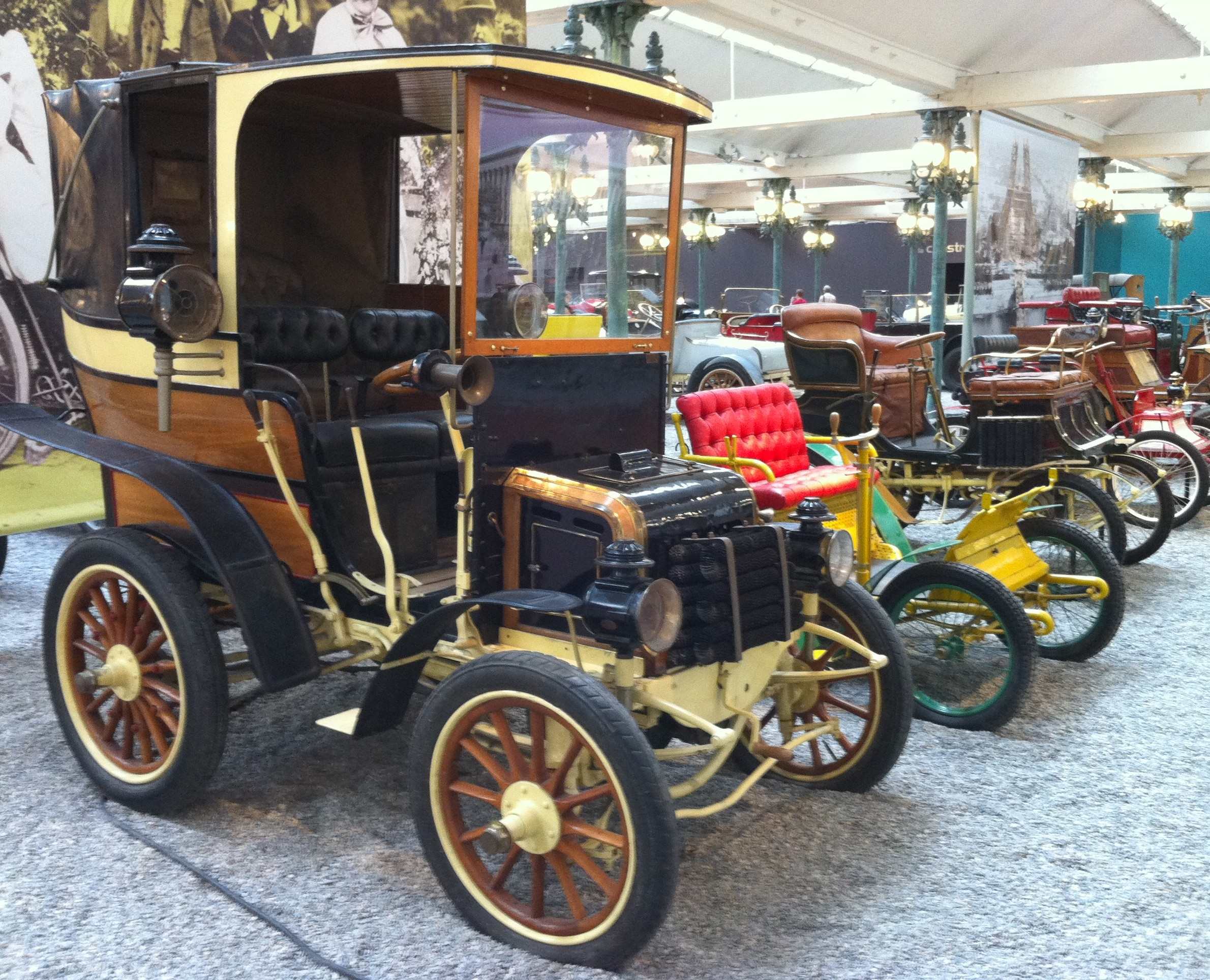 Panhard-Levassor Landaulet type A1 1898 at Cité de l'Automobile - Musée National - Collection Schlumpf